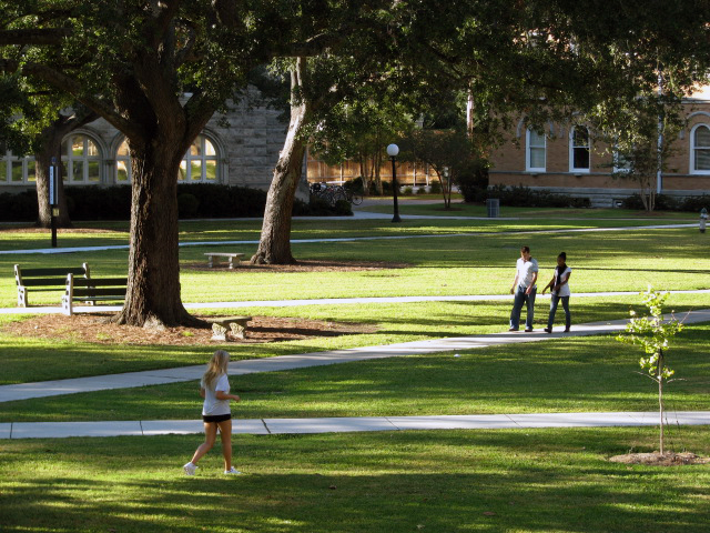 Gibson Quad of Tulane University